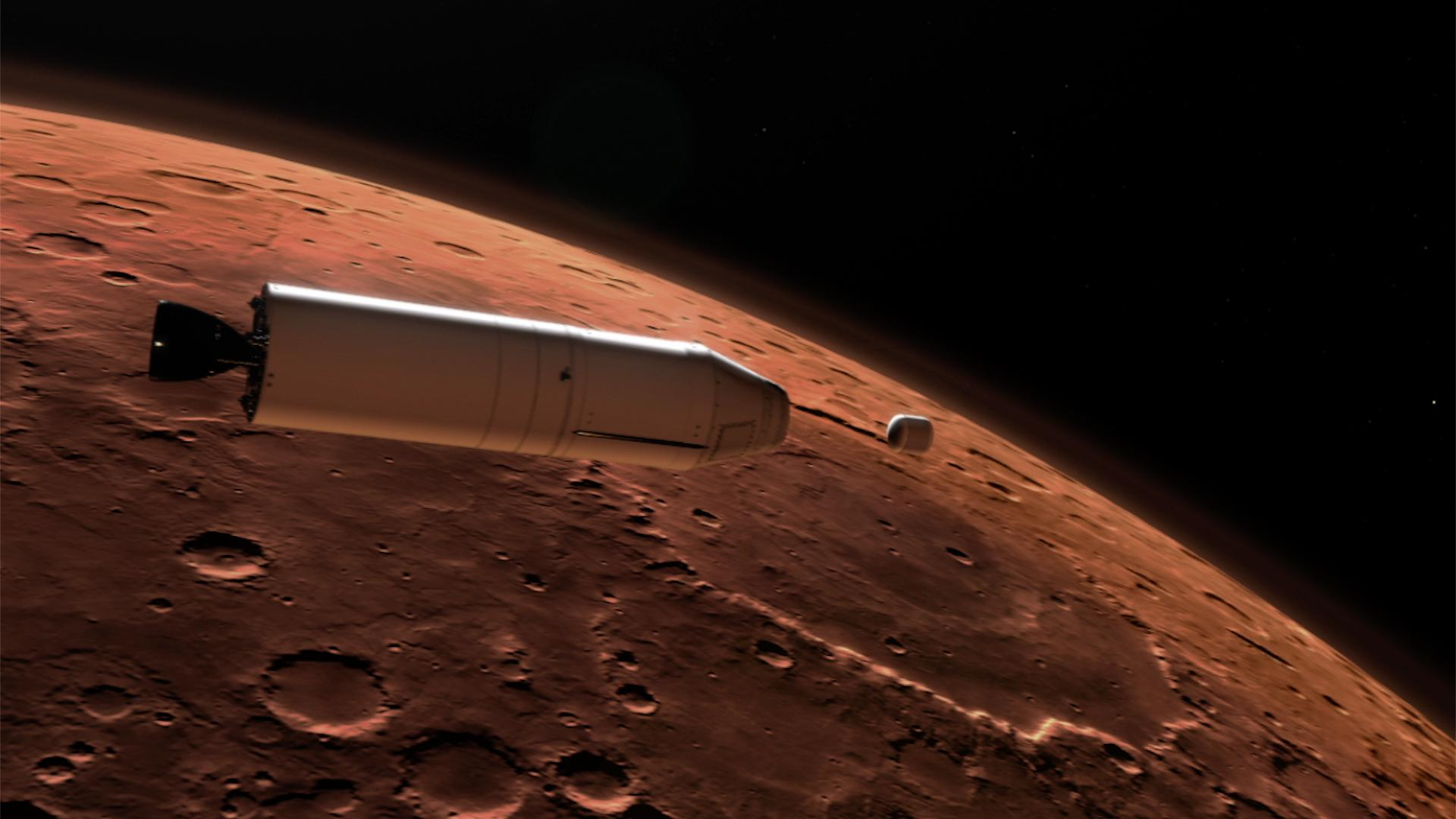 PIA23500: Mars Ascent Vehicle Deploying Sample Container in Orbit (Artist's Concept) As part of a Mars sample return mission, a rocket will carry a container of sample tubes with Martian rock and soil samples into orbit around Mars and release it for pick up by another spacecraft. This illustration shows a concept for a Mars Ascent Vehicle (left) releasing a sample container (right) high above the Martian surface. NASA and the European Space Agency are solidifying concepts for a Mars sample return mission after NASA's Mars 2020 rover collects rock and soil samples and stores them in sealed tubes on the planet's surface for potential future return to Earth. NASA will deliver a Mars lander in the vicinity of Jezero Crater, where Mars 2020 will have collected and cached samples. The lander will carry a NASA rocket (the Mars Ascent Vehicle) along with an ESA Sample Fetch Rover that is roughly the size of NASA's Opportunity Mars rover. The fetch rover will gather the cached samples and carry them back to the lander for transfer to the ascent vehicle; additional samples could also be delivered directly by Mars 2020. The ascent vehicle will then launch from the surface and deploy a special container holding the samples into Mars orbit. ESA will put a spacecraft in orbit around Mars before the ascent vehicle launches. This spacecraft will rendezvous with and capture the orbiting samples before returning them to Earth. NASA will provide the payload module for the orbiter.